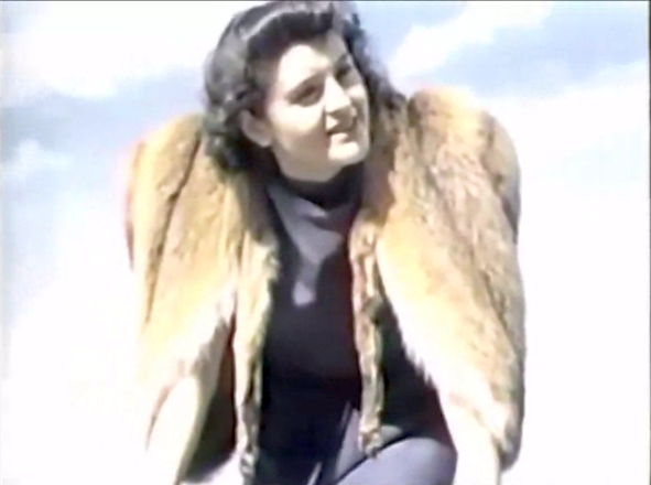 Cut from: Eva Braun's home movie Eva Braun & family vacation; Hitler at Berghof. She captures in the private life of the Nazi high command. Einblick in das private Leben von Eva Braun und Adolf Hitler . The Hitler home movies